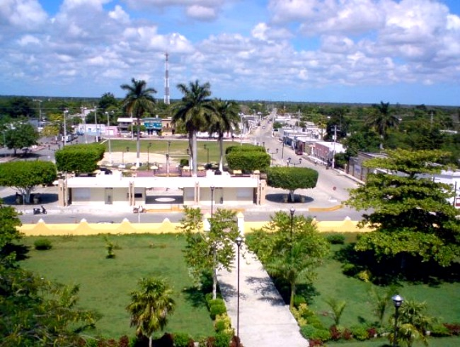 aerial image of downtown of Telchac Pueblo